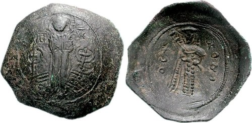 Theodore Mancaphas. Usurper in Philadelphia, circa 1188-1189 & 1204-1206. BI Aspron Trachy (3.95 g, 7h). Philadelphia(?) mint. Christ standing facing on daïs, raising hand in benediction and holding Gospels; QF monograms flanking / +CO[D]OPOZ, Theodore standing facing, holding patriarchal cross. DOC IV p. 395, note 18; Bendall & Morrisson pl. XXV, 2; SB -. Good VF, dark green patina. Very rare. A similar specimen, offered in LHS 97 (lot 204), realized CHF 2800.